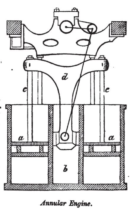 Diagram of annular type marine steam engine designed by Messrs. Maudsley. This type of engine used the same connection mechanism to the crankshaft as Maudslay's Siamese engine, but used one large annular cylinder wrapped around the crosshead instead of two cylinders either side. Text accompanying the above diagram in the original source is as follows: "In this variety the piston is made in the form of a ring, a, a, encircling an inner cylinder, b. Two piston rods, c, c, communicate the reciprocating motion to the ... crosshead d, which descends into the inner cylinder, where it is joined to the lower end of the connecting rod. The latter slides between vertical guides on the face of the internal cylinder, the head of the connecting rod being in connection with the crank pin, as usual. The advantage to be derived from this arrangement is, that a long connecting rod is thereby obtained without unduly increasing the height of the paddle shaft."